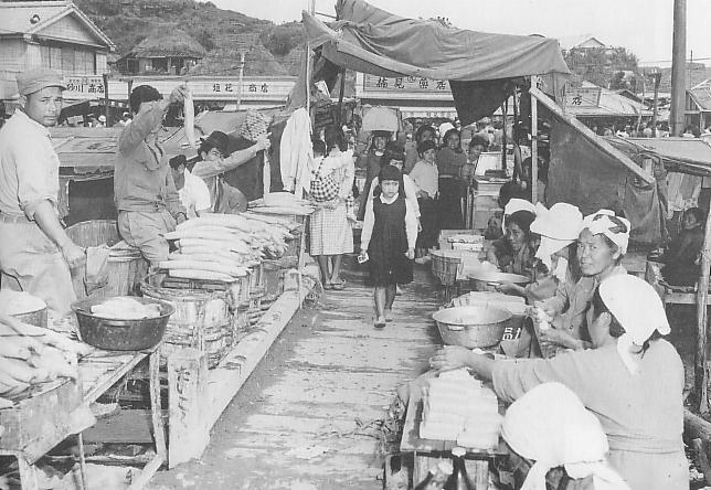 Waterfont stalls along Gaabu River circa 1950